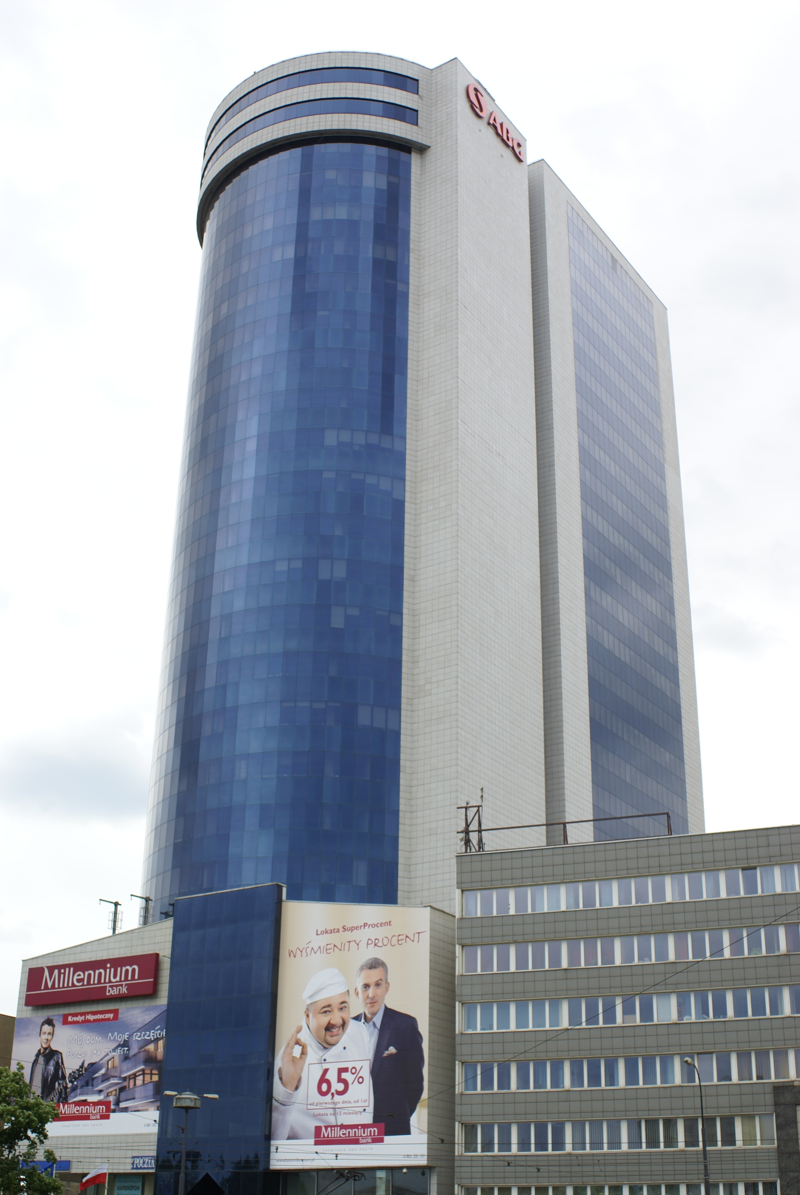 Millennium Plaza, Warsaw, Poland